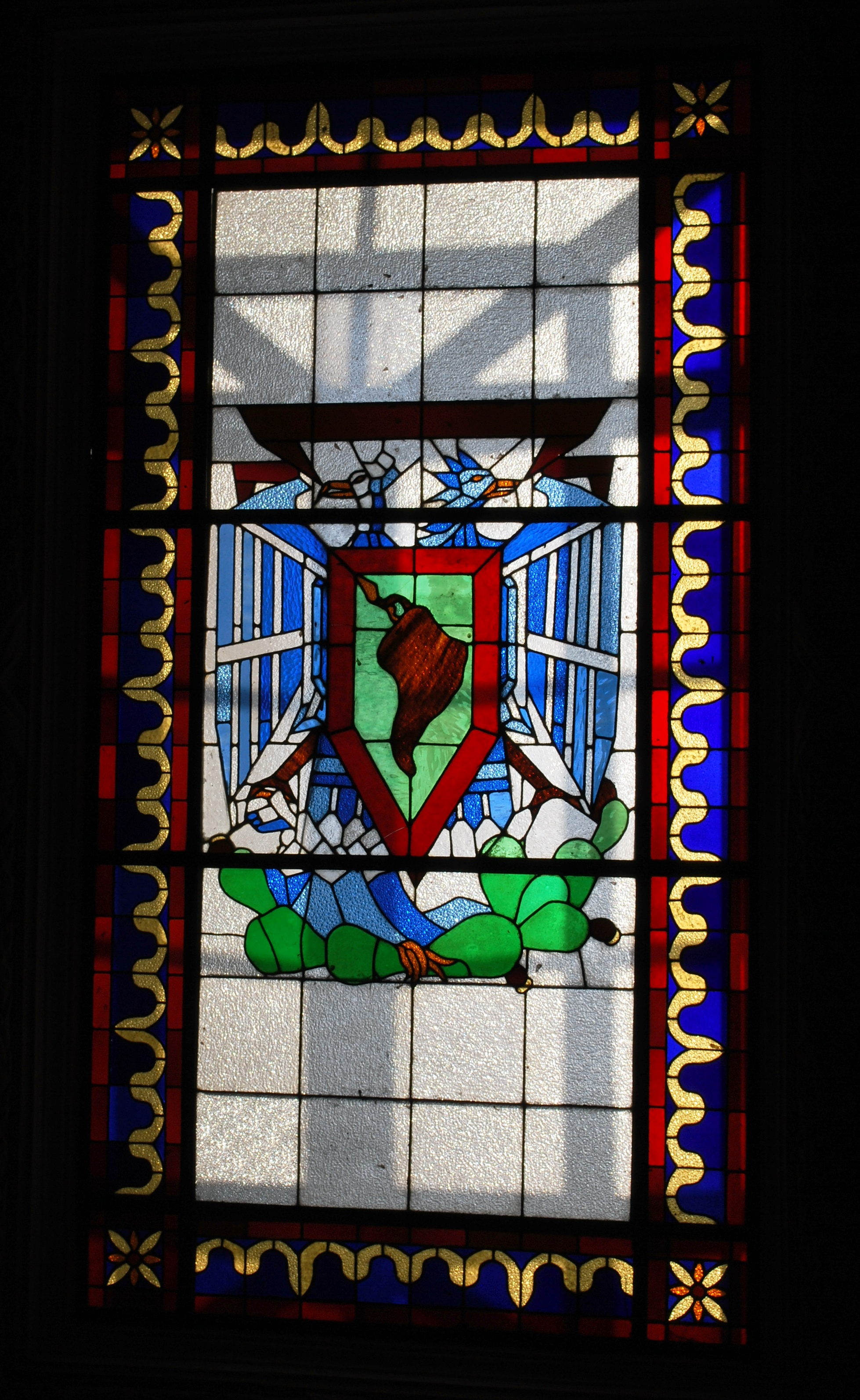 Stained glass window with school seal at the San Carlos Academy building in the historic center of Mexico City